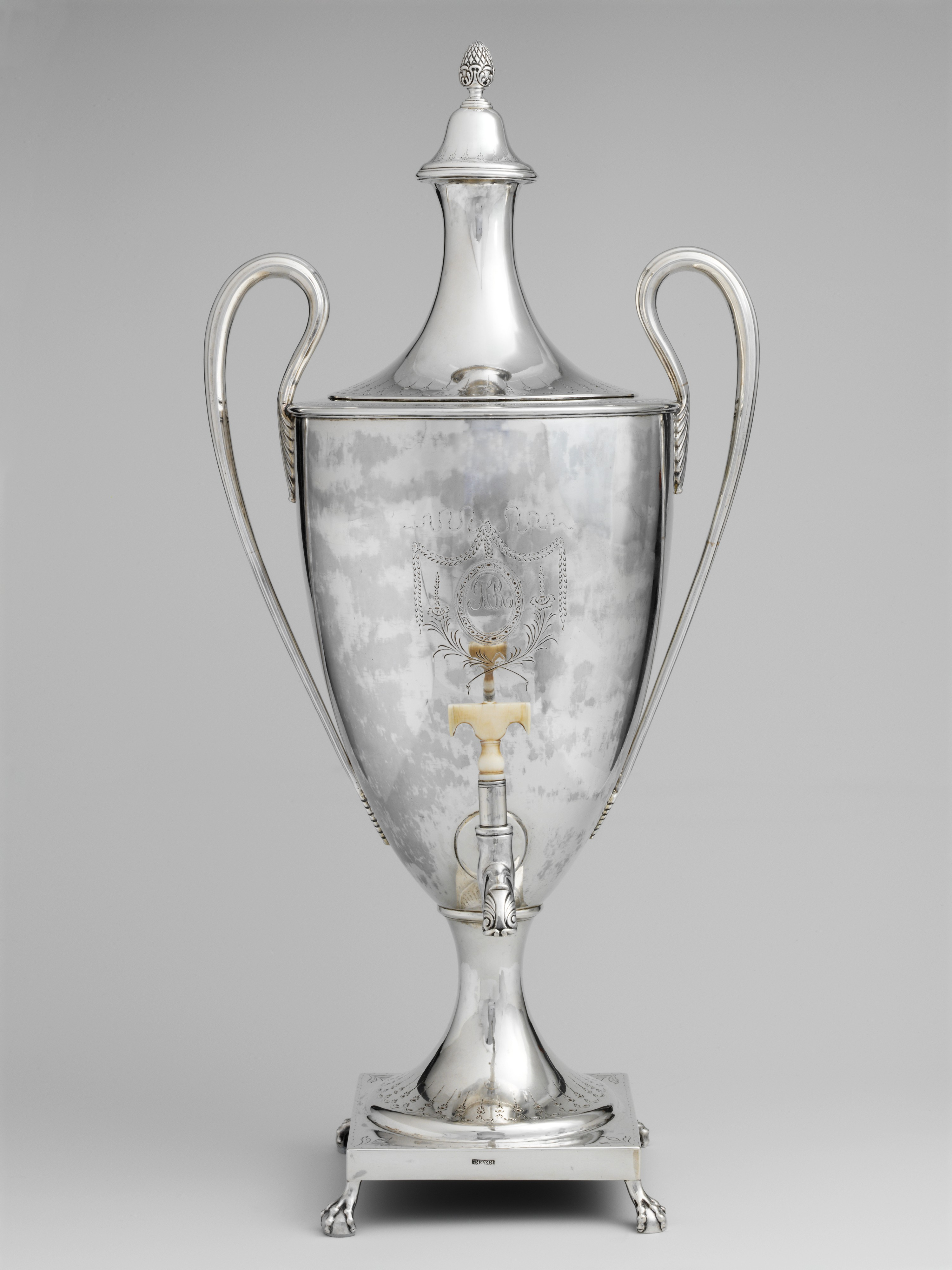 American; Urn; Silver